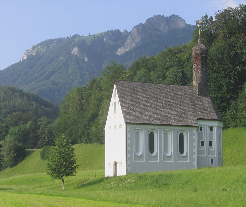 Windshausen (municipality of Nußdorf am Inn), view of Holy Cross Subsidiary Church from south-west.